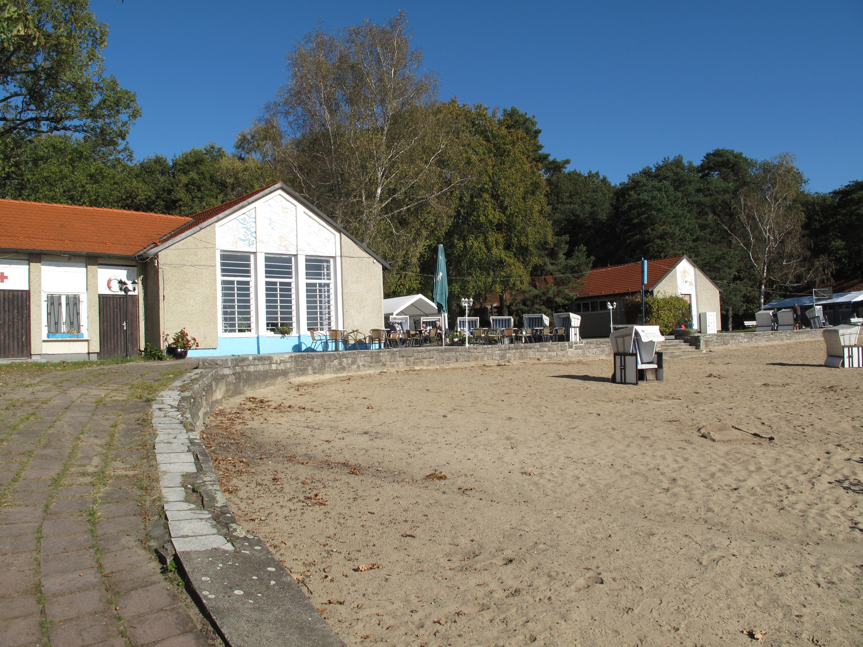 The Seebad Wendenschloss, also known as Strandbad Wendenschloss or Freibad Wendenschloss, is a public open air bath in the locality Köpenick in Berlins borough Treptow-Köpenick, Germany. It is situated in the location Wendenschloß in Berlins city forest at the northern bank of the Langer See (german for: long lake), which is passed by the river Dahme. The bath was opened in 1914/15.